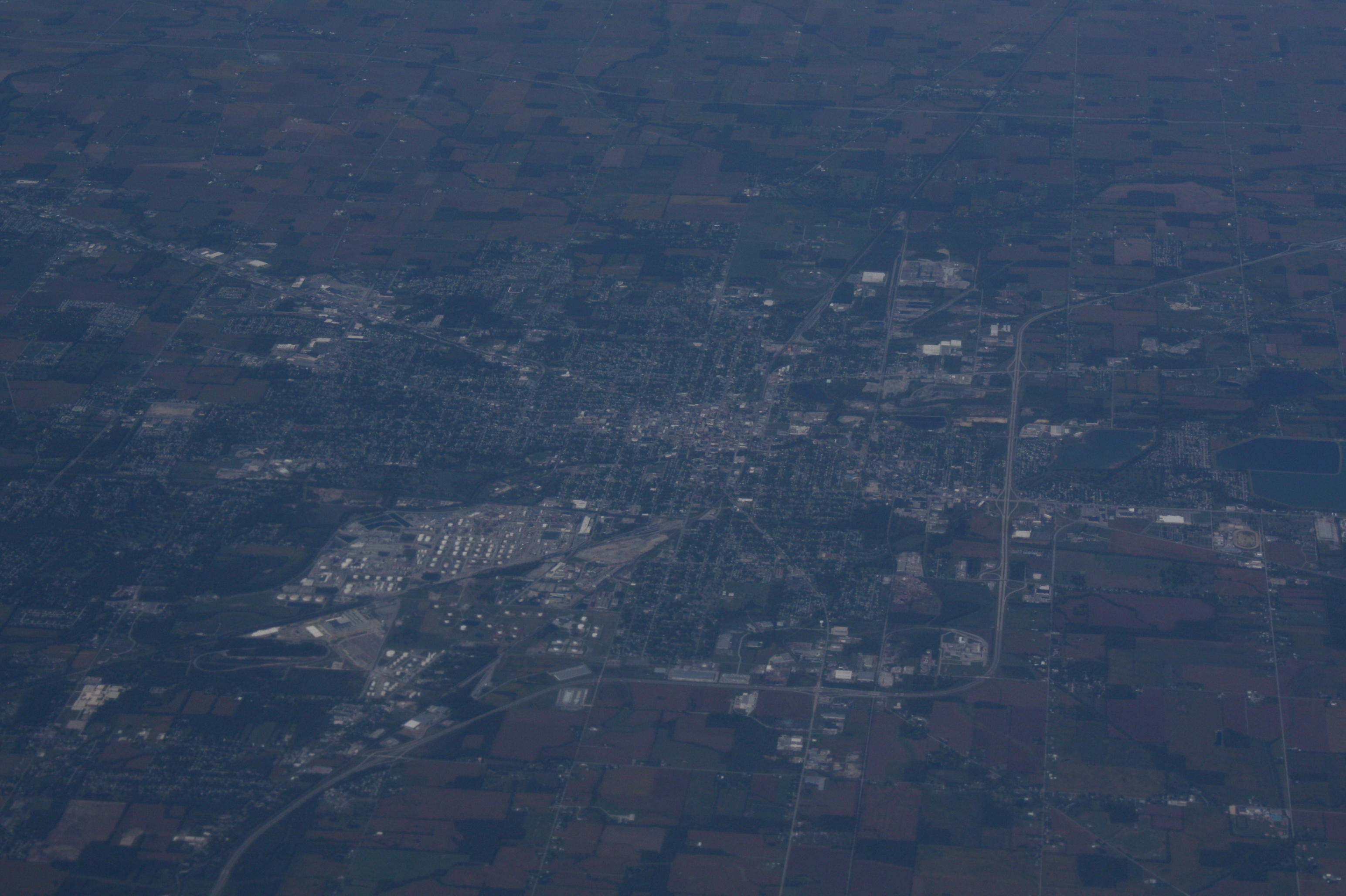 Oblique air photo of Lima, Ohio, facing approximately north, in September, 2018.